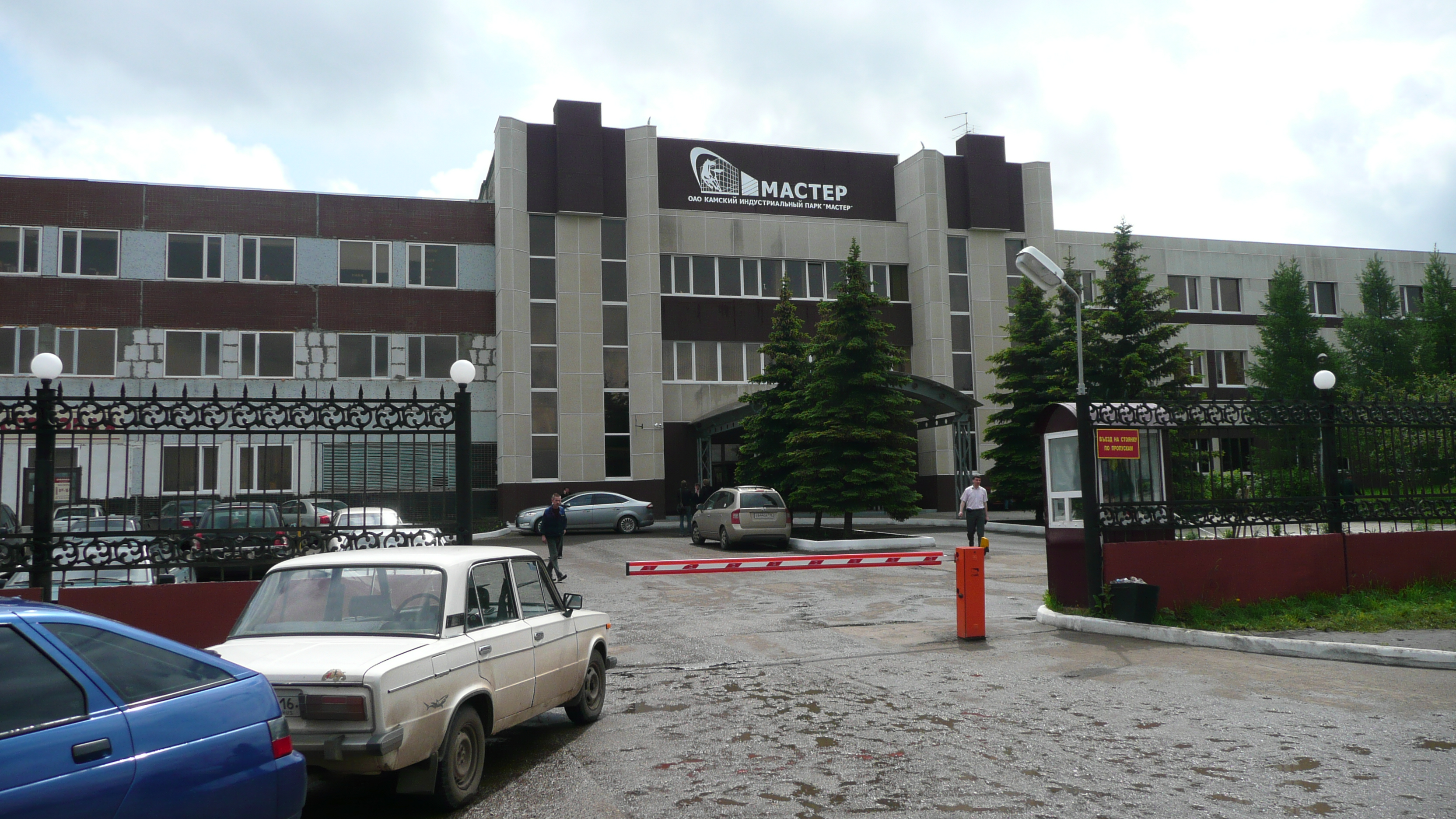 Kama Industrial Park "Master", in Naberezhnye Chelny